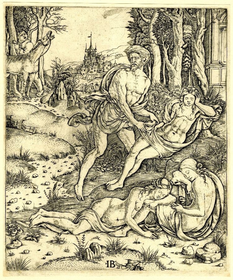 Giovanni Battista Palumba, print in the British Museum